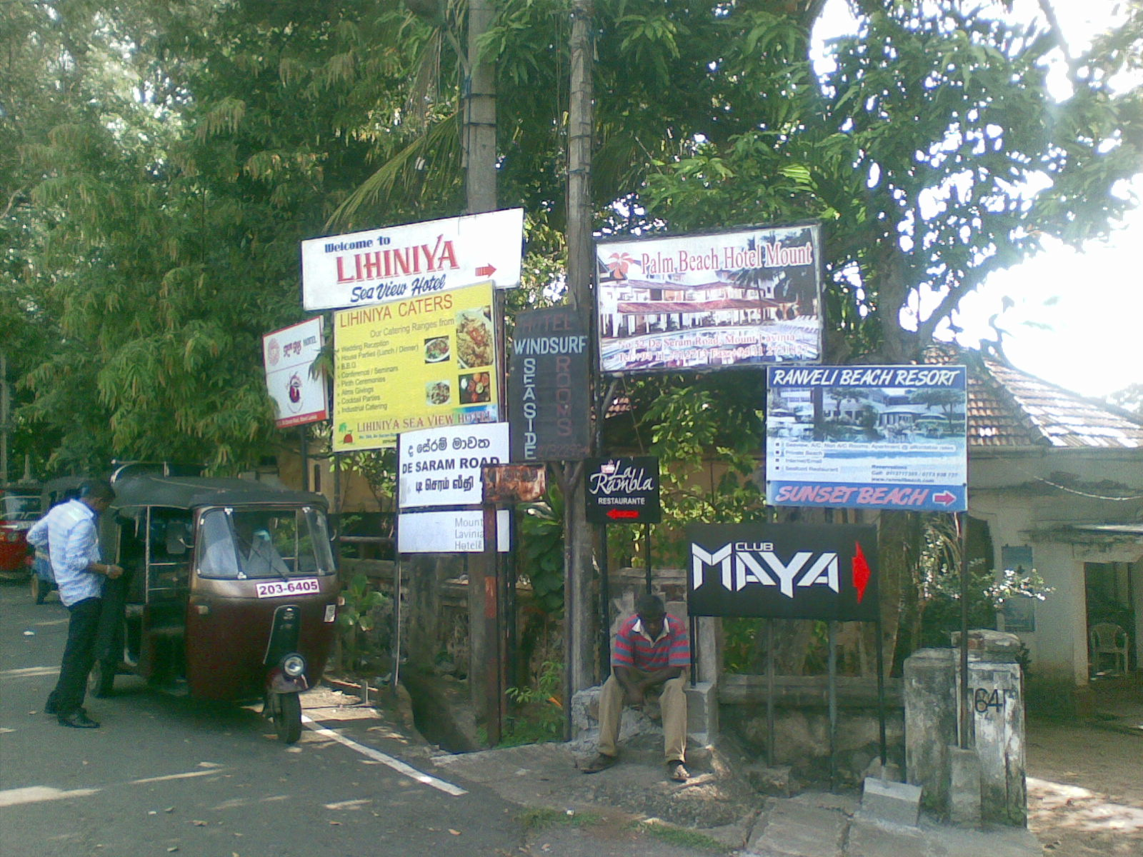 Junction Hotel Road, Mount Lavinia 2012 දෙහිවල - ගල්කිස්ස தெஹிவளை - கல்கிசை